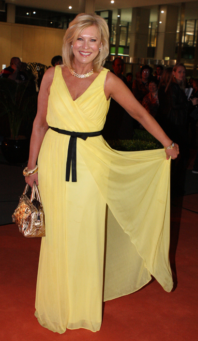 Kerri-Anne Kennerley at the official launch of The Star casino.